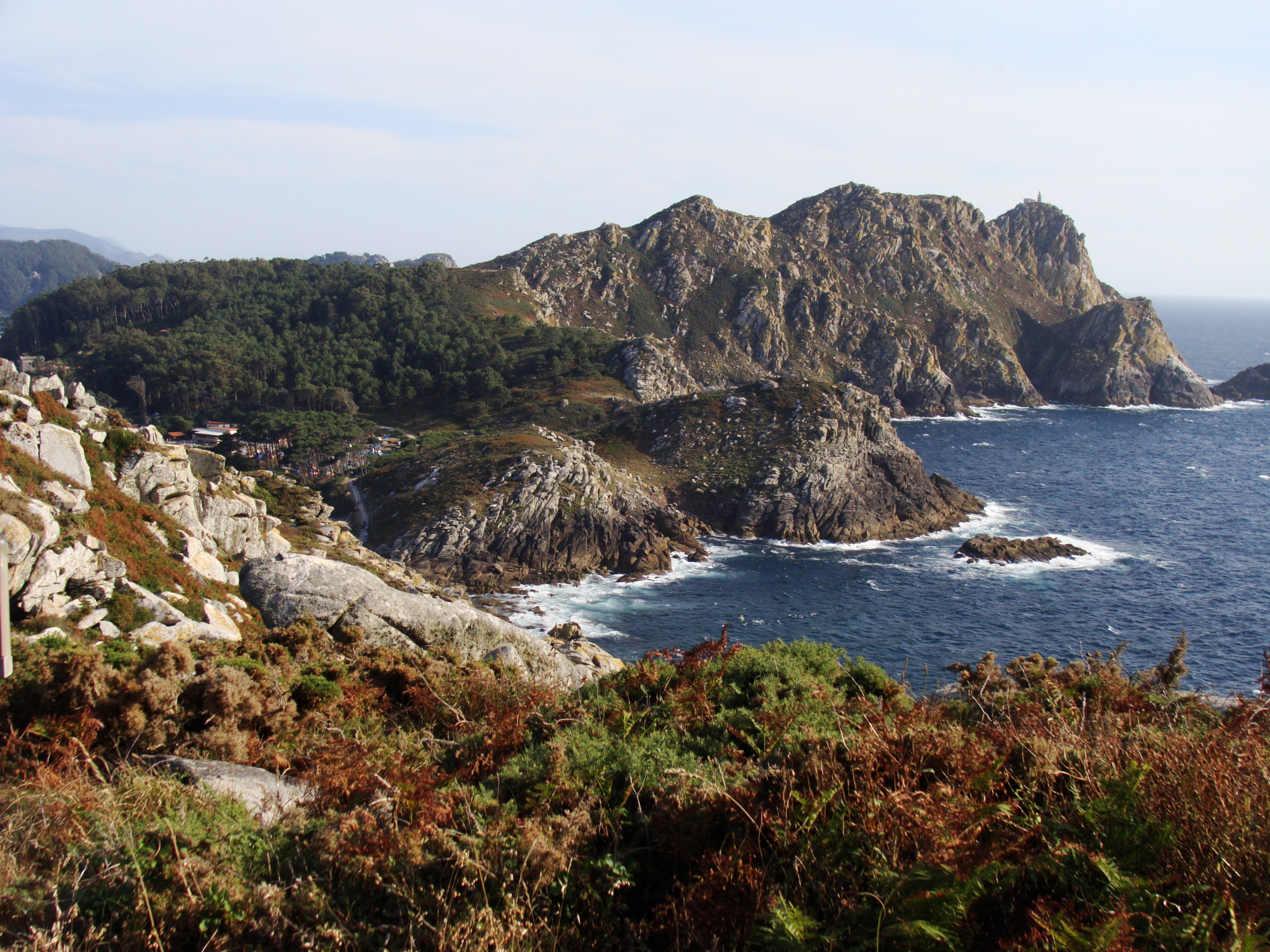 Island of Lighthouse (Island of the Middle), in Cíes Islands, Pontevedra, Galicia, Spain.